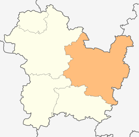 Map of Targovishte municipality, Targovishte Province